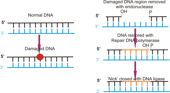 Illustration of mechanism of DNA repair